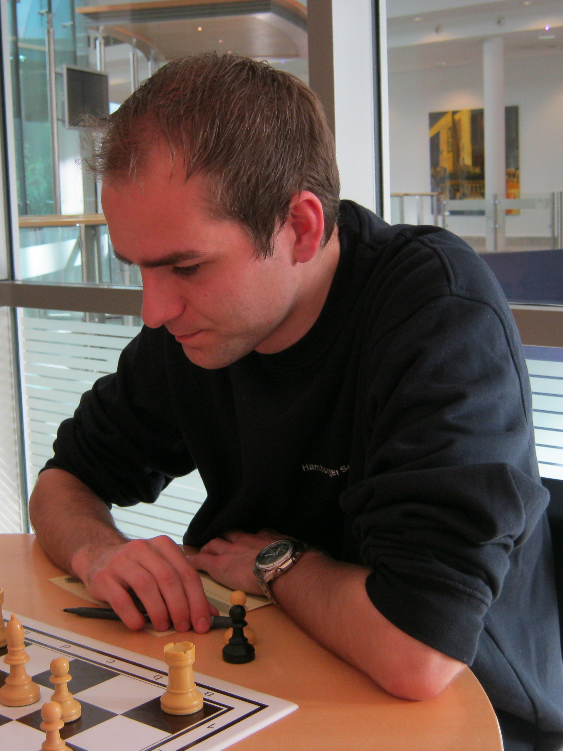 Allan Stig Rasmussen, chess grandmaster from Denmark